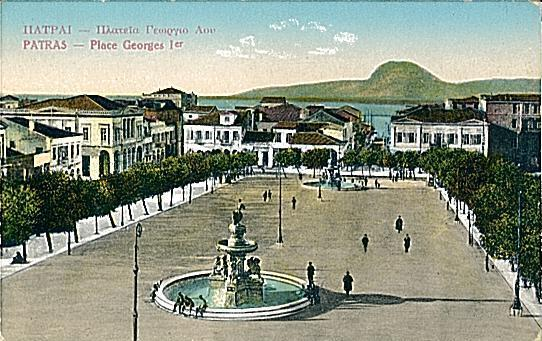 The central square of Patras in the past century